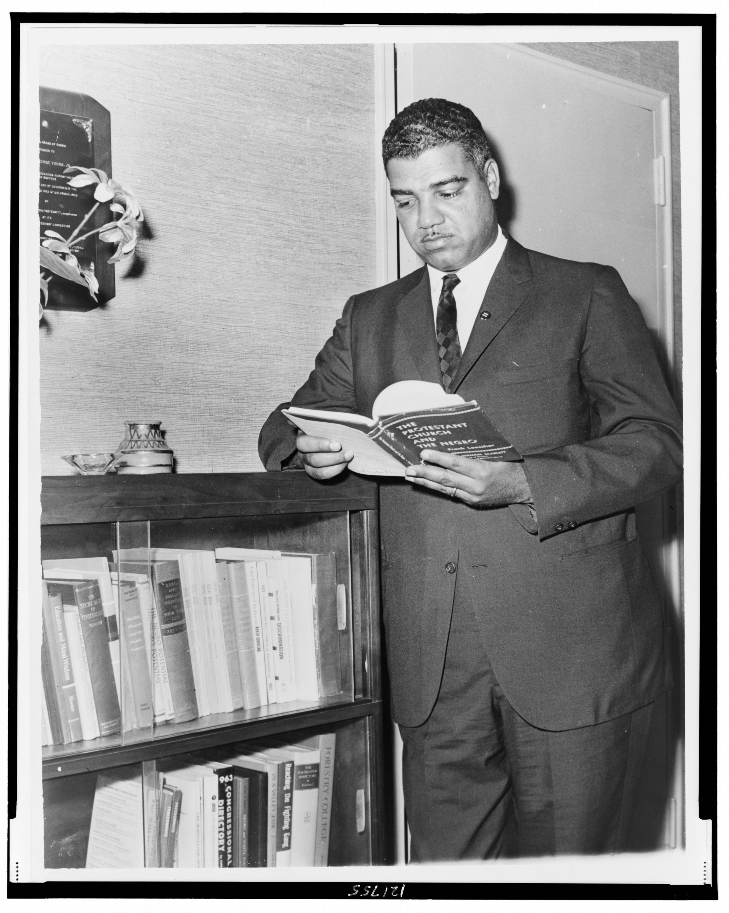 Whitney Young, three-quarter length portrait, standing next to a bookcase, facing front, reading book / World Telegram & Sun photo by John Bottega.